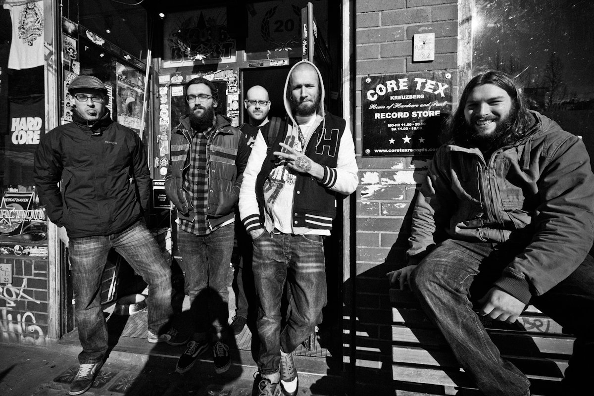 Photograph taken of Shaped By Fate in Berlin, 2011